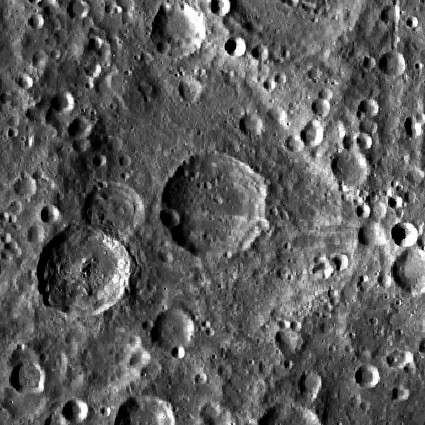 Mandel'shtam is the crater that is almost as large as the entire image. Mandel'shtam A is inside the main crater, and R is the large one with a central peak straddling the SW rim.